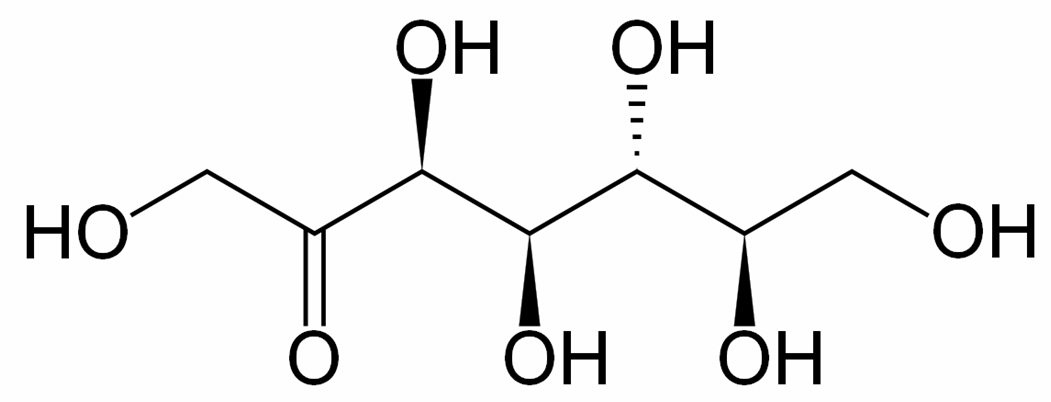 Skeletal formula of sedoheptulose. Created using ACD/ChemSketch 10.0 and Inkscape.